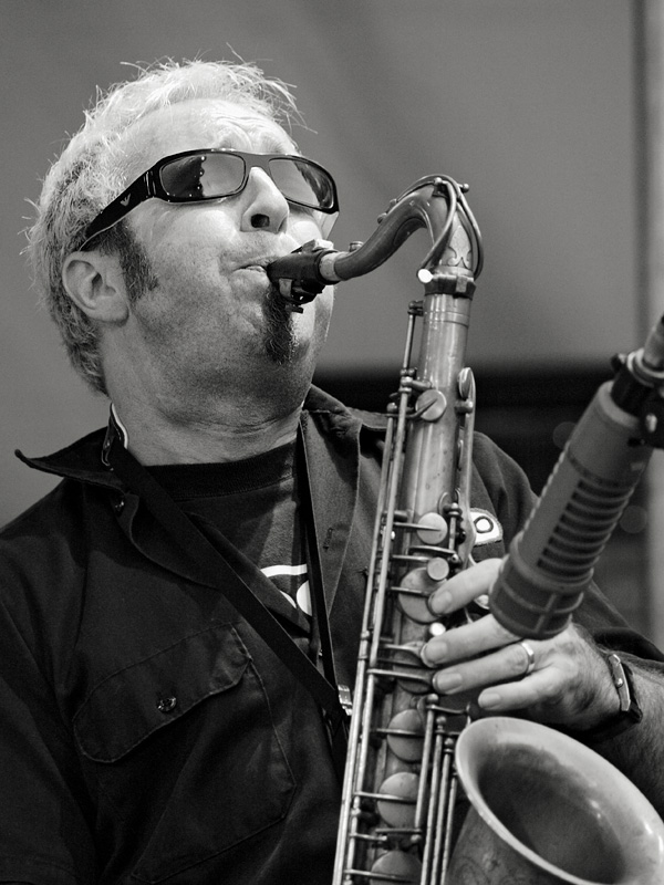 Mars Williams at Offside Festival 2008